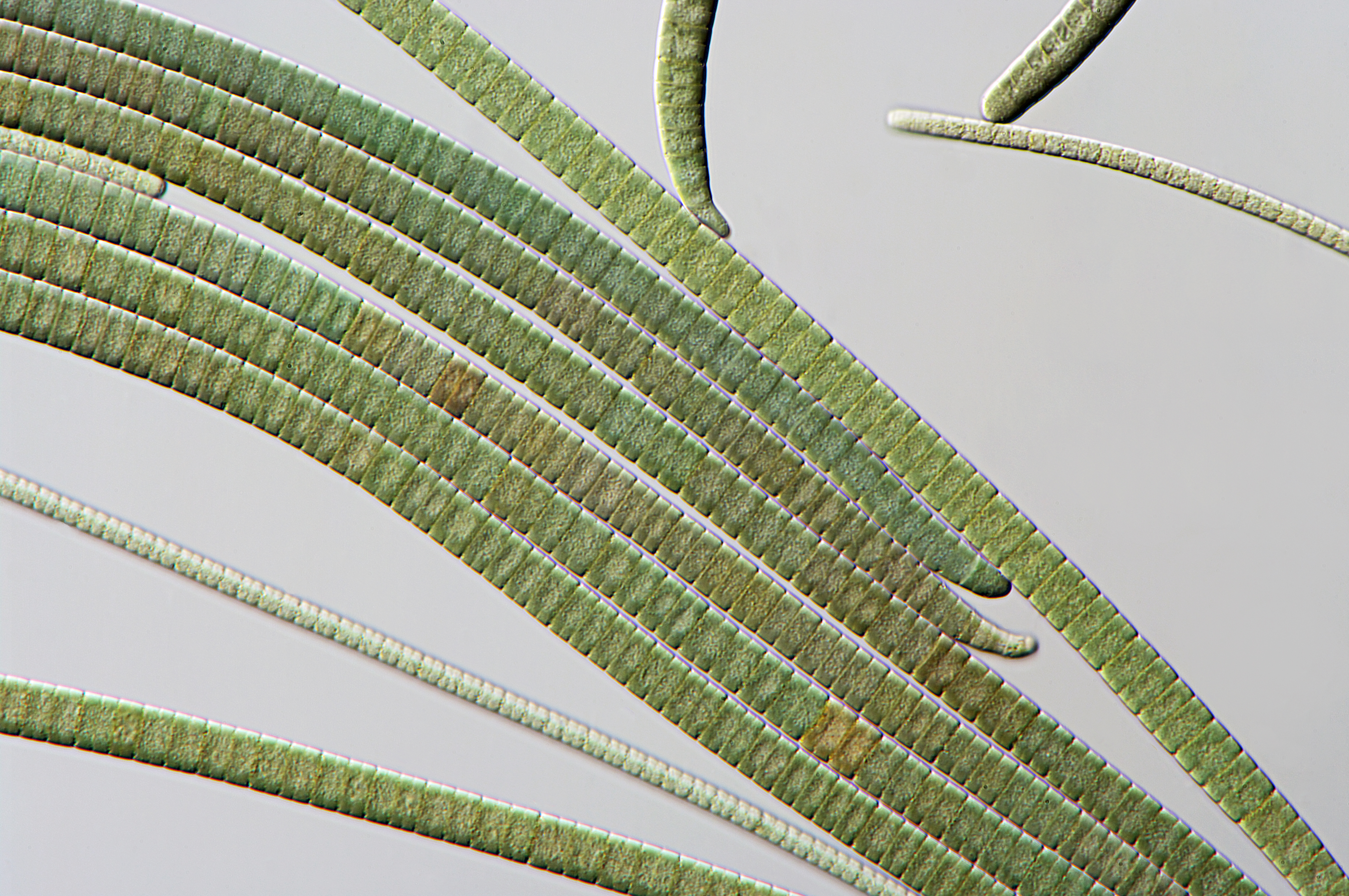 Oscillatoria filaments (Cyanobacteria: blue-green algae)